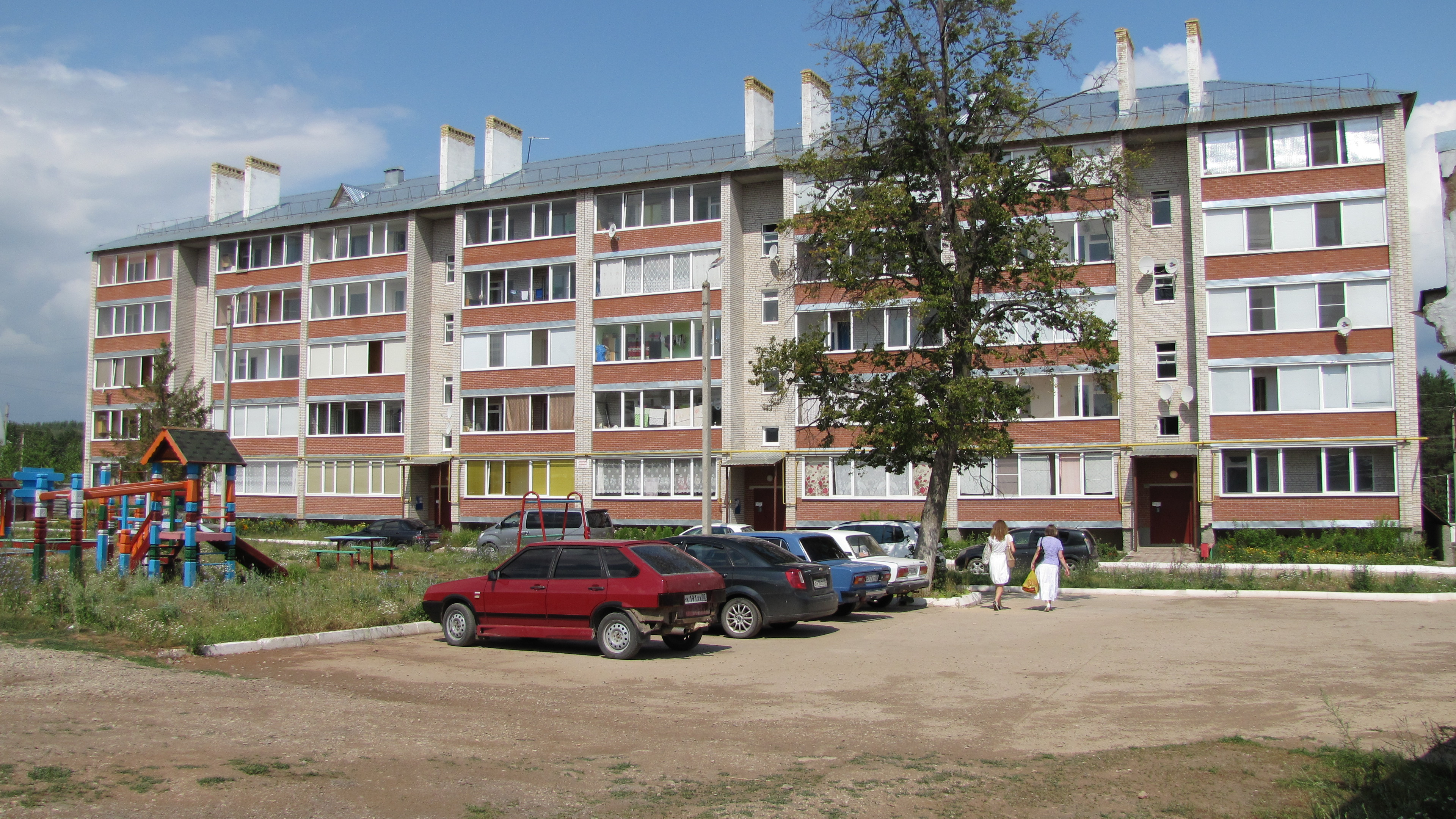 Belebey, Republic of Bashkortostan, Russia